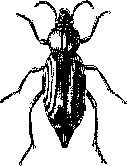 Blaps mortisaga (Churchyard Beetle).